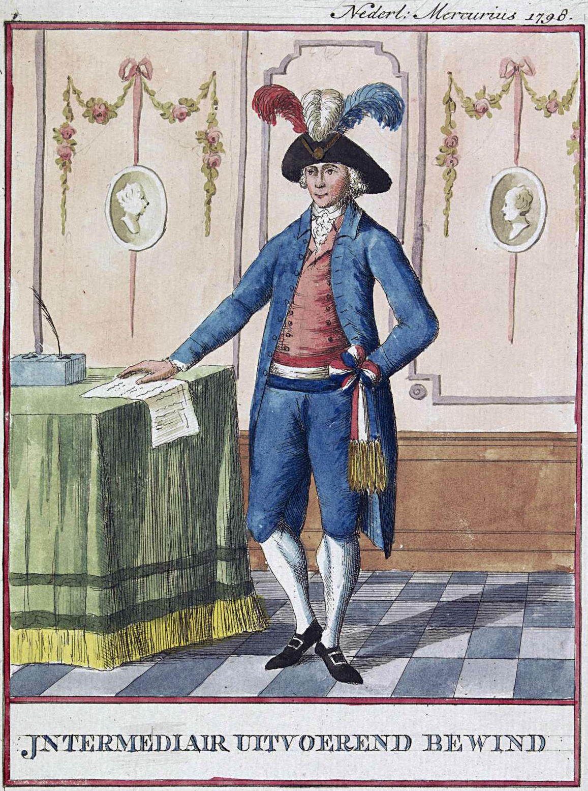 Official costume of a member of the Intermediate Executive Regime of the Batavian Republic.